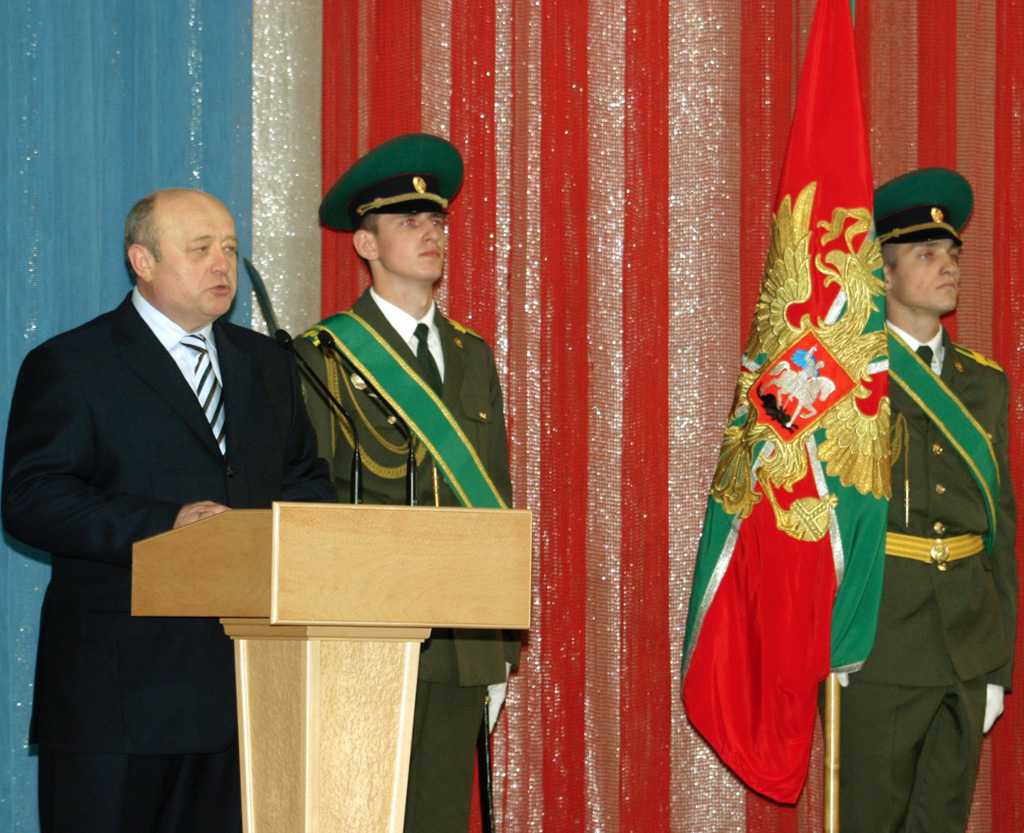 “Border Guards Day”. Russia's Prime Minister Mikhail Fradkov (center) attending a gala concert in the State Kremlin Palace to mark Border Guards Day.